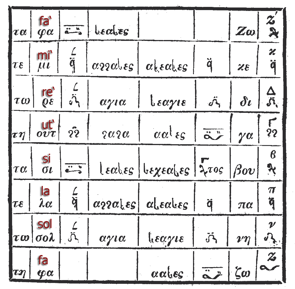 Interpretation of the Koukouzelian wheel by Chrysanthos, list of the modal signatures used in Modern Byzantine Notation since 1814.